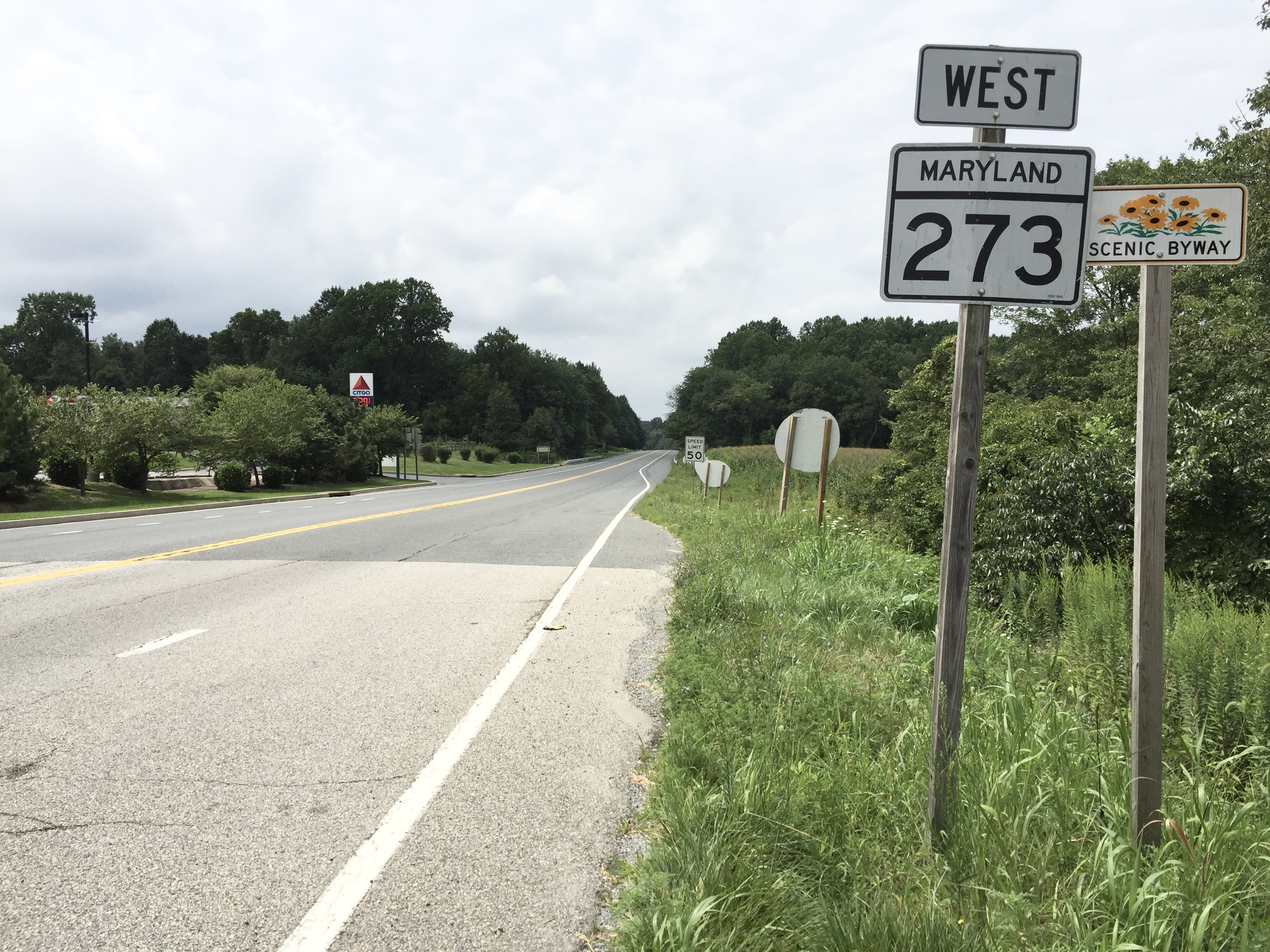 View west along Maryland State Route 273 (Telegraph Road) at Maryland State Route 213 (Lewisville Road/Singerly Road) in Fair Hill, Cecil County, Maryland